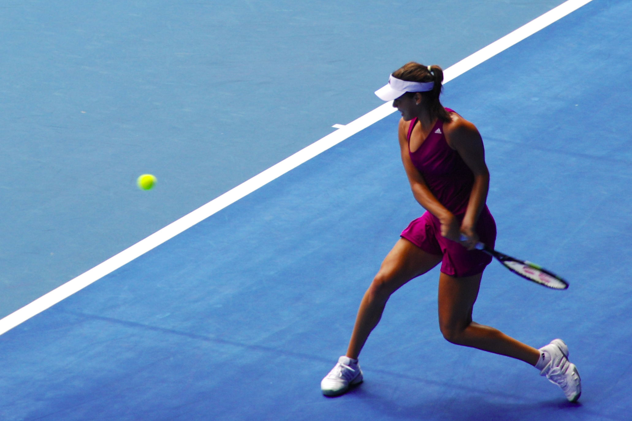 Ana Ivanovic playing at 2009 Australian Open.